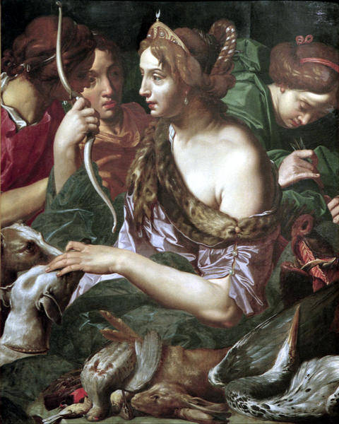 Abraham Janssens, Diana and her Companions (Alternative title: Diana after the Chase), oil on panel, 126.3 x 97.4 cm cm (estimate)